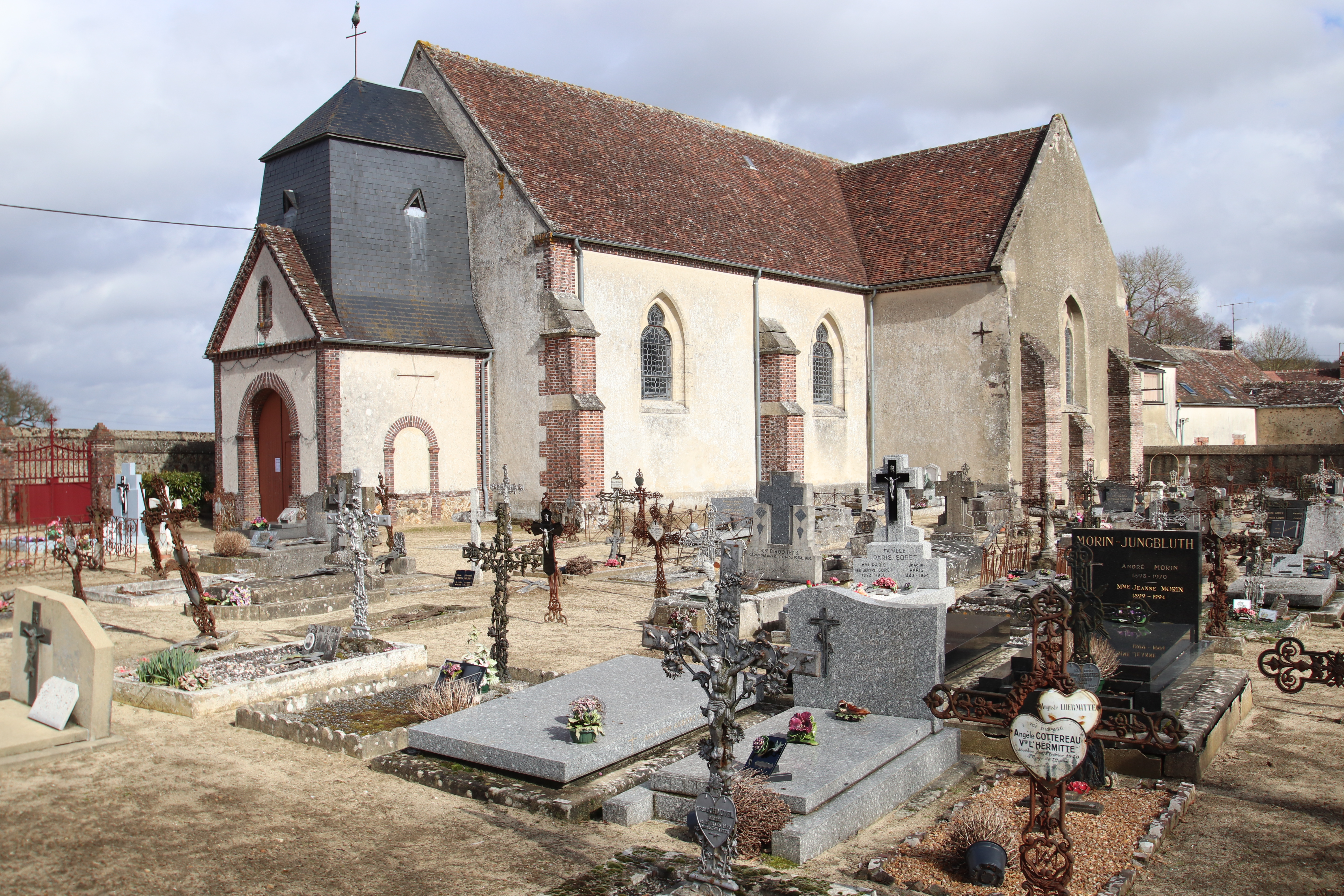 Église Notre-Dame (Our Lady church) of Vaupillon, France. Object location48° 27′ 37.84″ N, 0° 59′ 46.97″ E